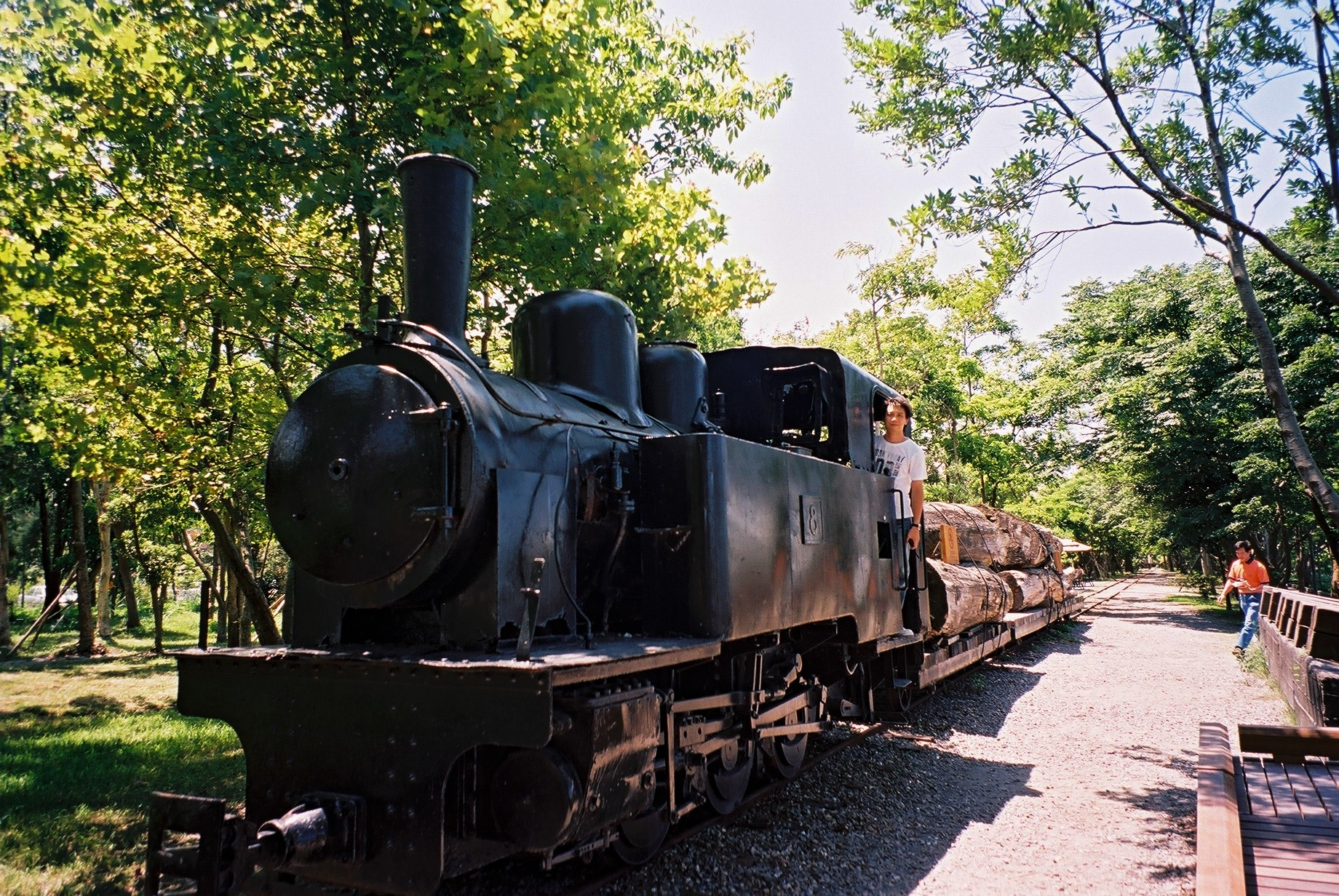 Yilan Forest Railway Train